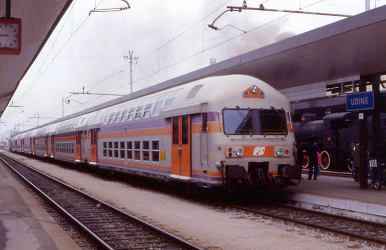 Two floors carriage, in Udine.